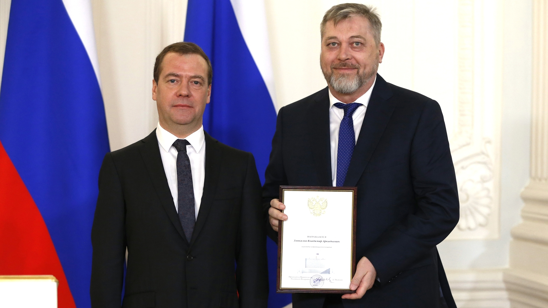 Dmitry Medvedev with Vladimir Zlokazov